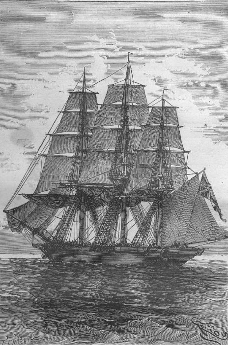 An ilustration from the novel "The Survivors of the Chancellor: Diary of J. R. Kazallon, Passenger" by Jules Verne drawn by Édouard Riou.